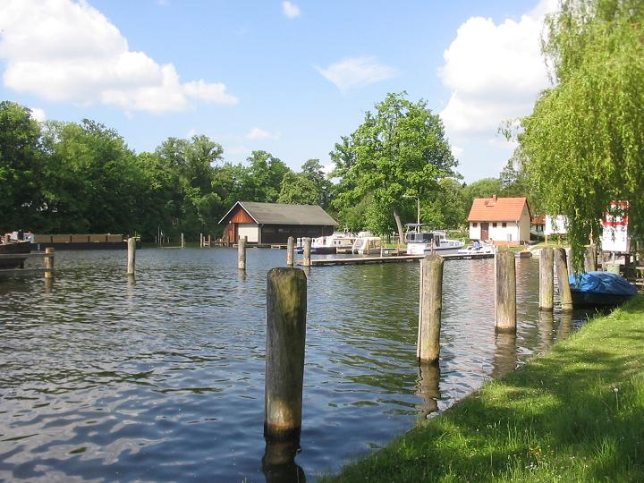 Staabe (part of river Dahme) in the village Neue Mühle, part of the town Königs Wusterhausen in the district Dahme-Spreewald, state Brandenburg, Germany.